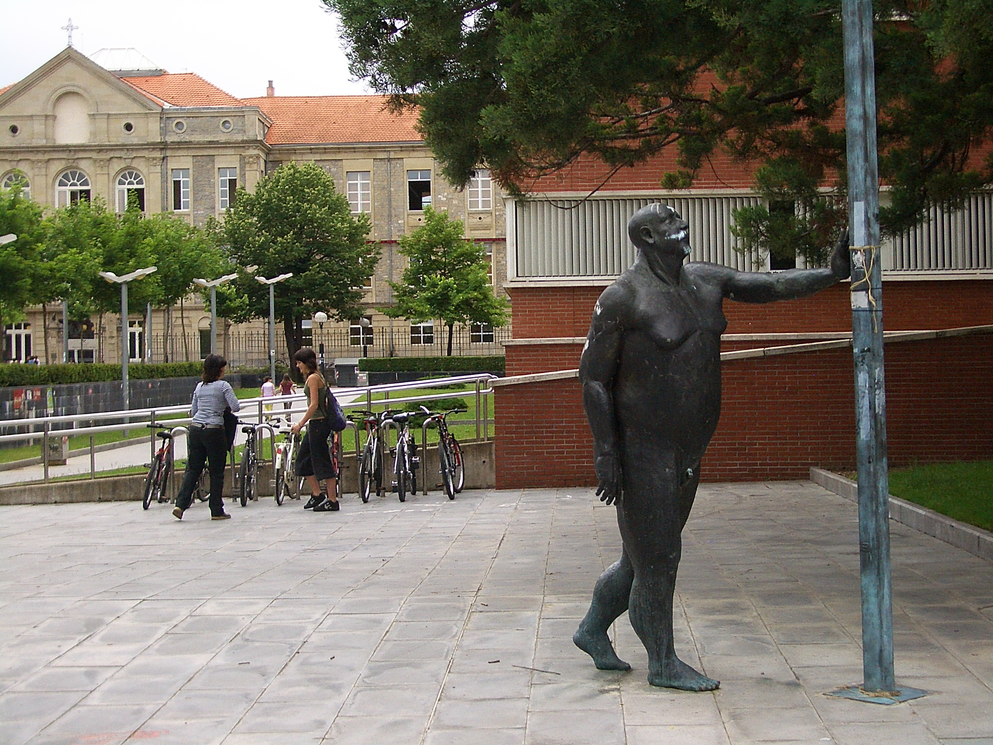 On campus of the University of the Basque Country (Vitoria-Gasteiz).